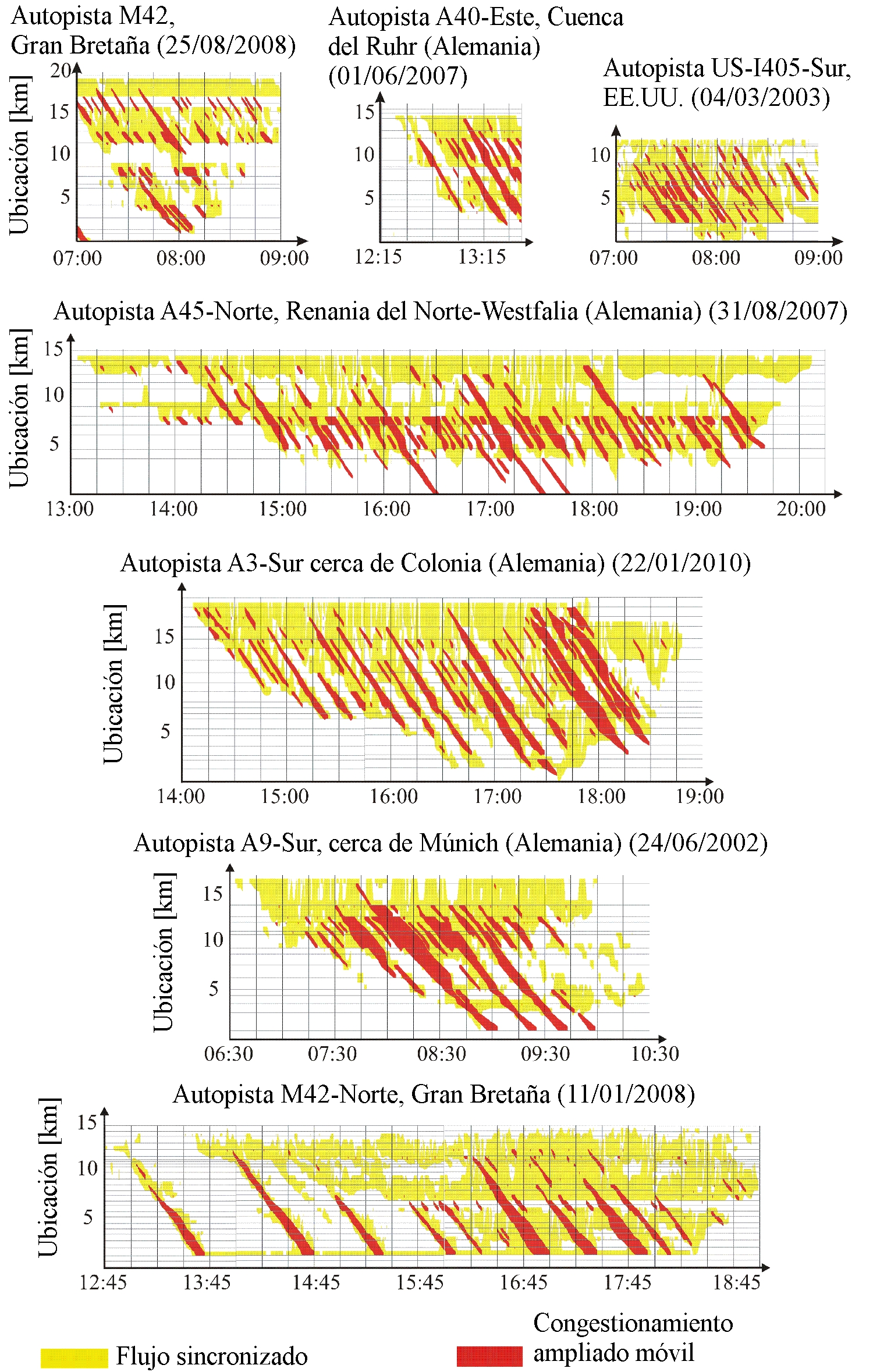 ASDA Patterns